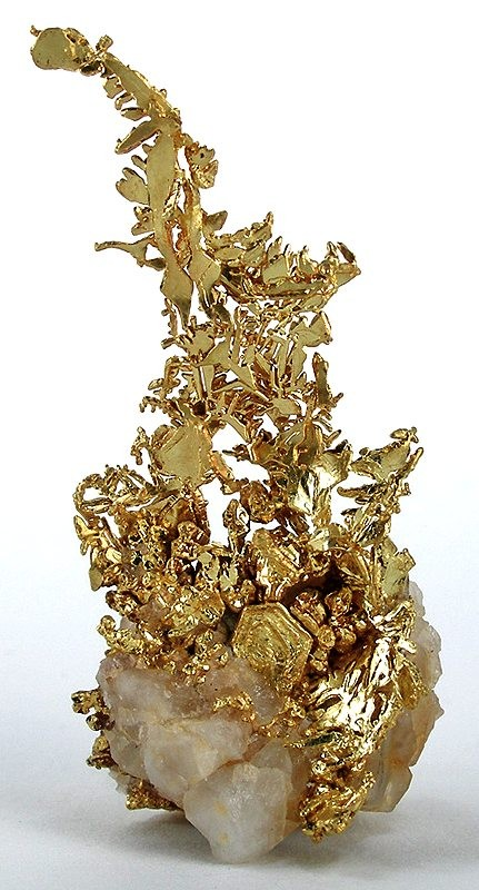 Gold Locality: Mother Lode (Mother Lode belt), Tuolumne County, California, USA (Locality at ) Size: 5.3 x 2.7 x 2.4 cm. This gold specimen has natural pocket crystals, not etched out of surrounding matrix with acid and so preternaturally bright and with a complex patina. It is a large miniature which for many years was the best piece in the collection of my own mentor, Carlton Davis of Columbus, Ohio. He had bought it from Hugh Ford's famous NYC mineral shop in the 1950s. When Carl sold his collection, this piece went first to Bill Pinch and then to Mark Feinglos. The mine name of origin has been lost but it is from the Mother Lode area of old mining in California, mostly contained within the current Tuolumne County. The crystals are stunningly bright and sharp. It is intricately 3-dimensional. Ex. Dr. Mark Feinglos, Bill Pinch, and Carlton Davis Collections.